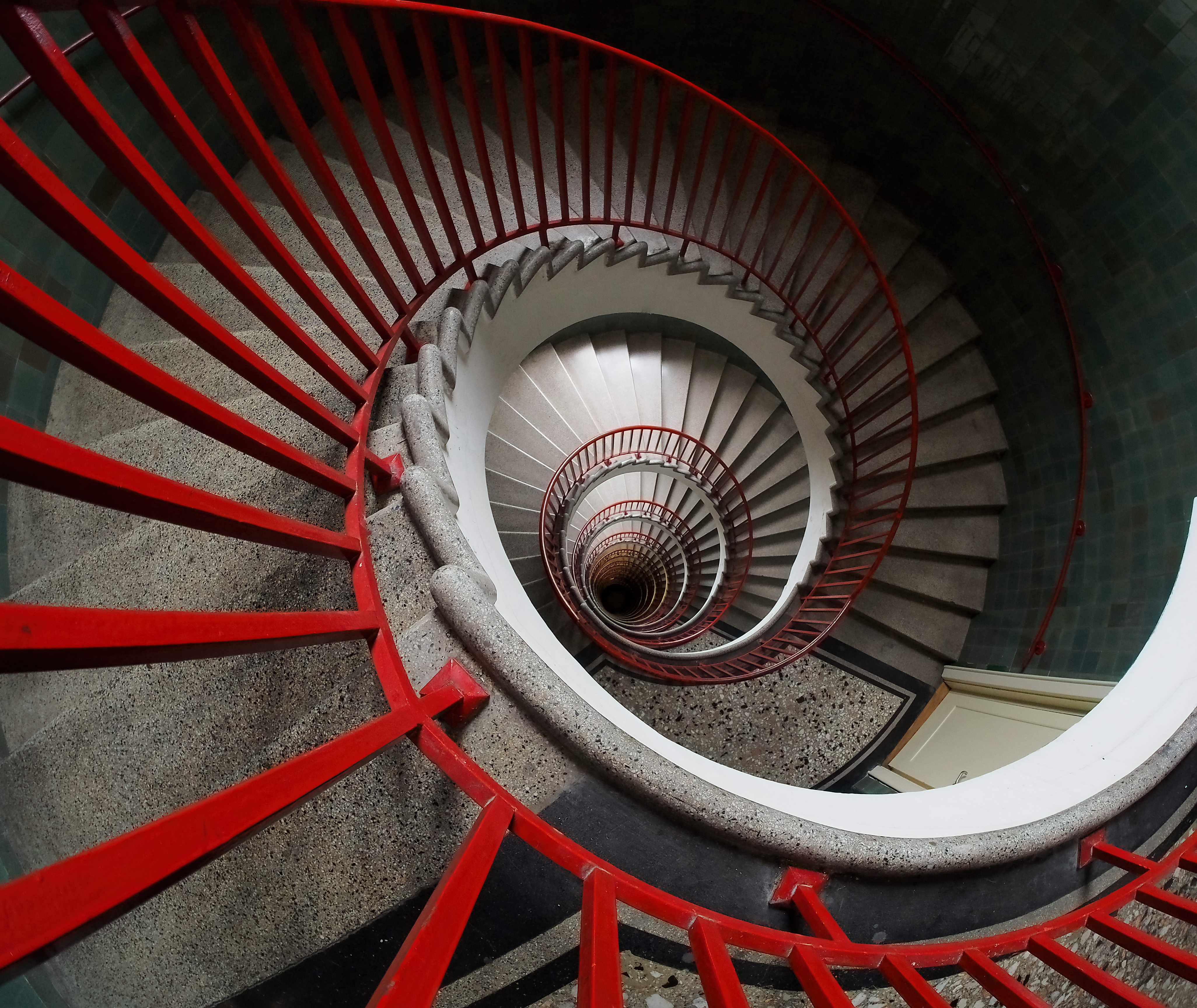 Art déco spiral stairs. Nebotičnik skyscraper in Ljubljana, Slovenia. Built in 1933.